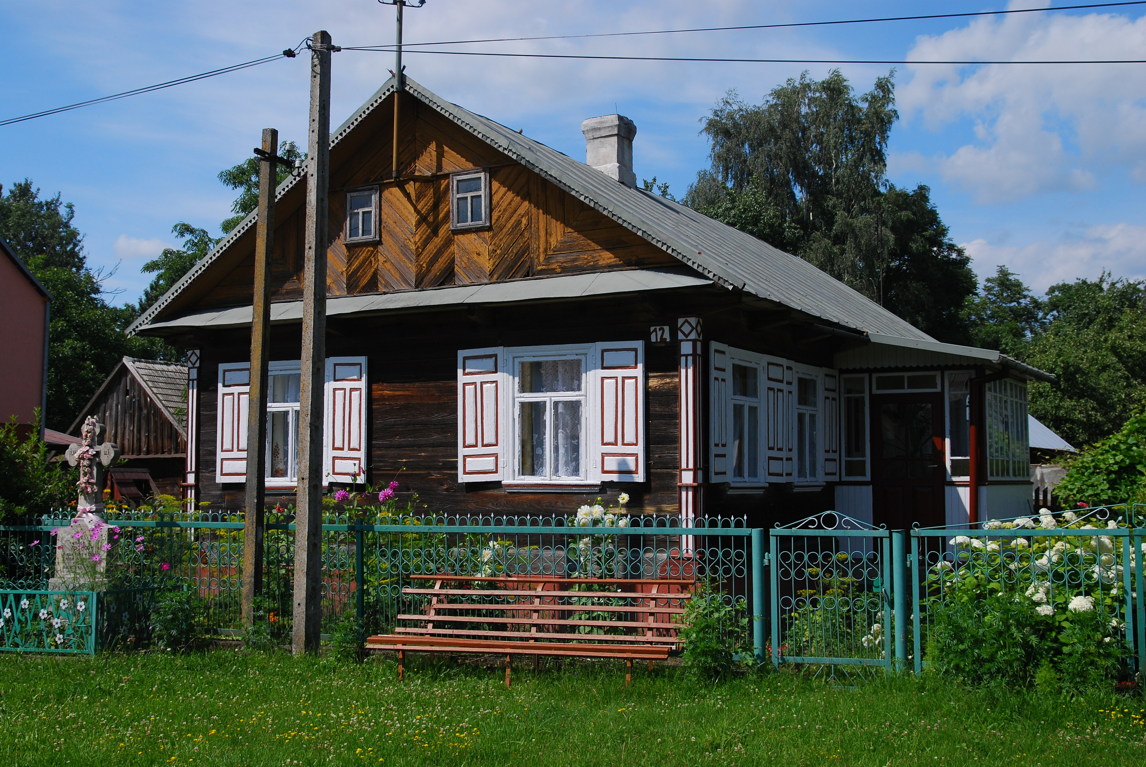 This photo from Podlaskie Voievodeship was taken during Polish Wikiexpedition 2009 set up by Wikimedia Polska Association. The making of this document was supported by Wikimedia Polska. Traducyjna zabudowa podlaska dom w Kotowce